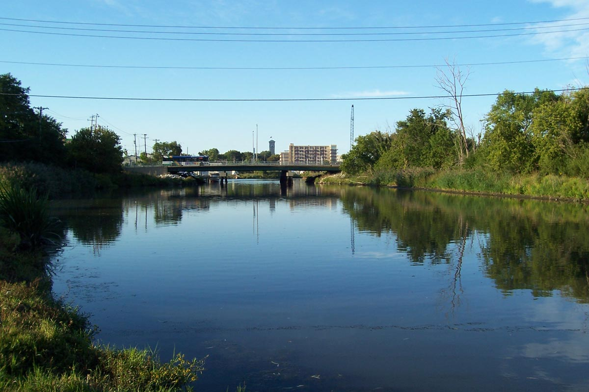 A rare picturesque view of the Kinnickinnic River looking north from Baran Park in Milwaukee, Wisconsin.